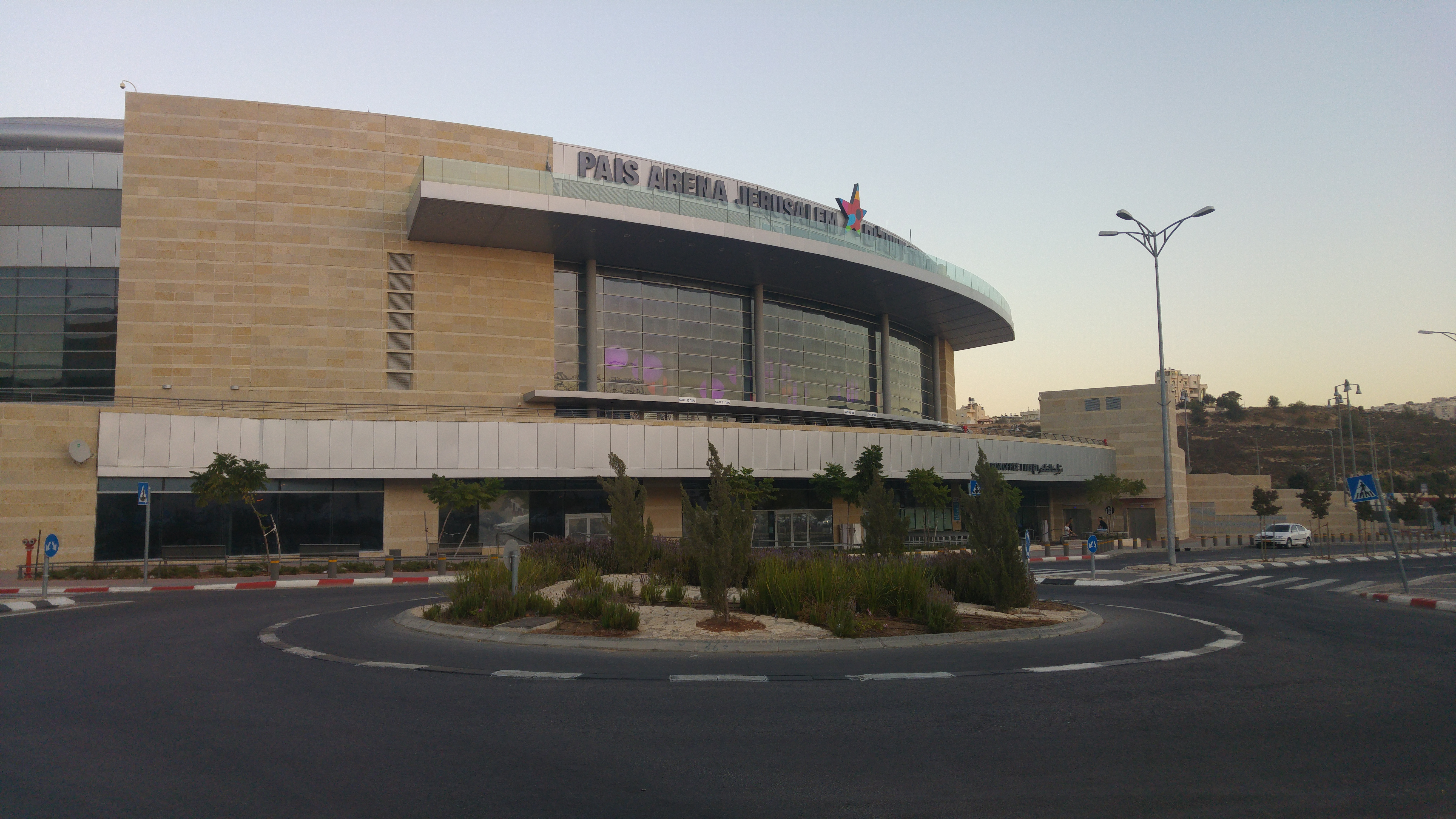 Jerusalem Arena